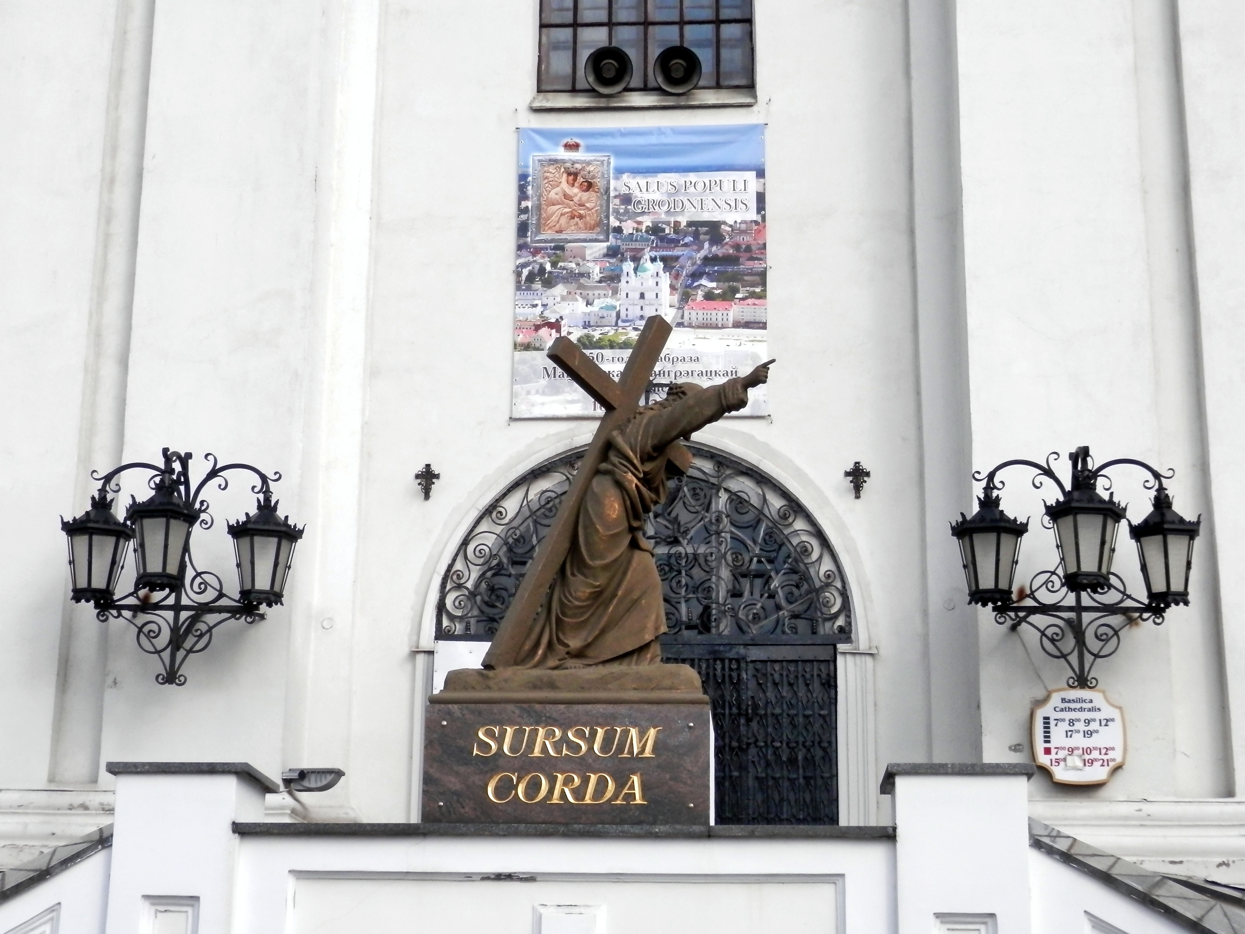 St. Francis Xavier Cathedral, Grodno